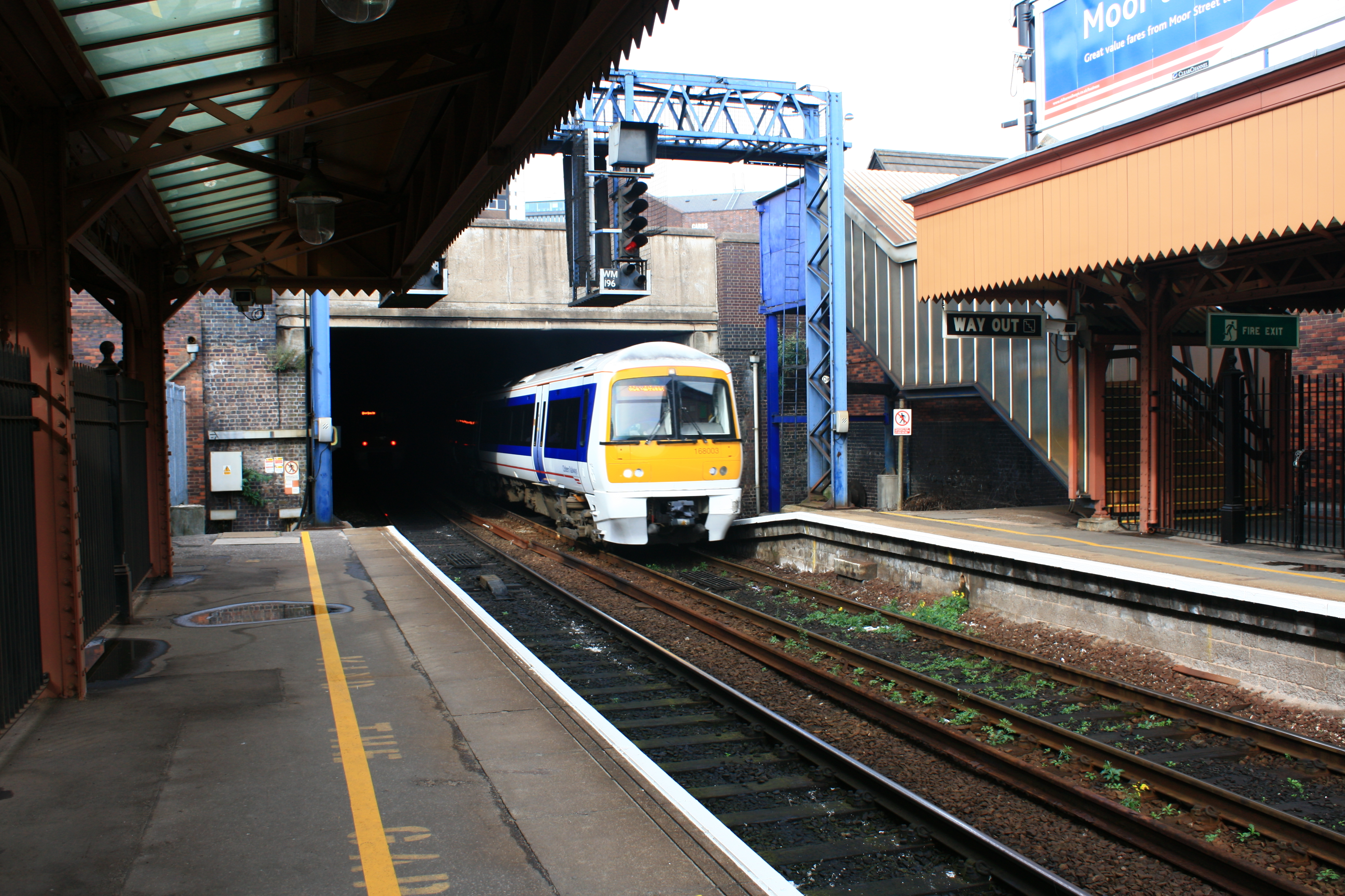 Chiltern Railways Class 168/0 Networker Clubman at Moor st. station, Birmingham UK